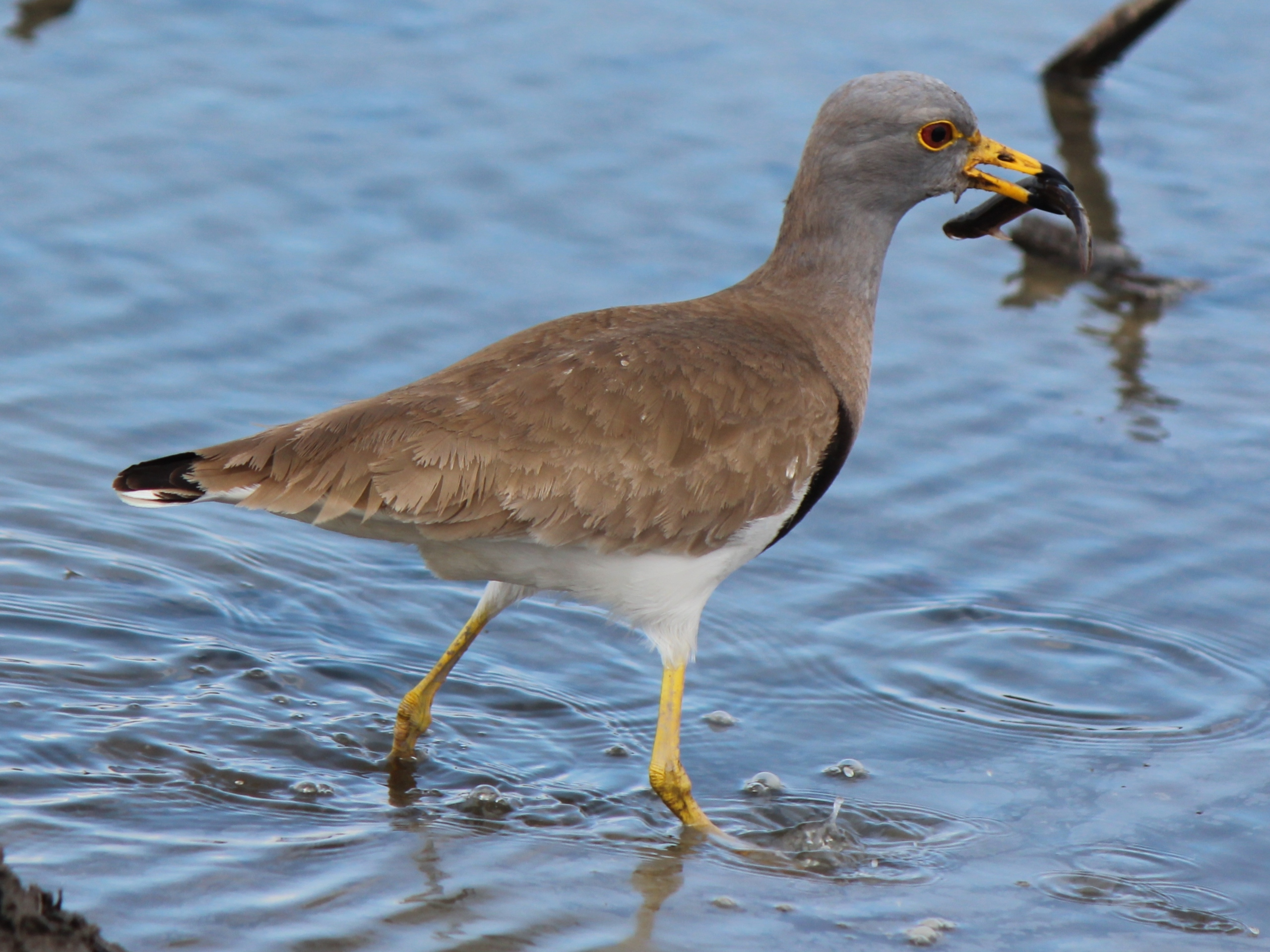 Grey-headed Lapwing (Vanellus cinereus) eating fish, in Japan.